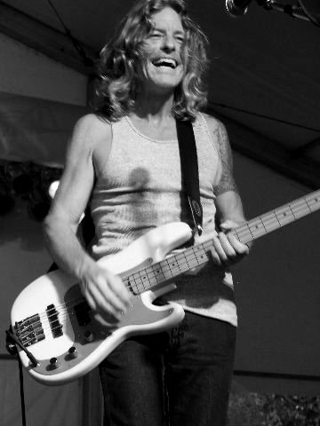 Mark Andes with Ian McLagan at ACL Festival 2006. Photo by Ron Baker.